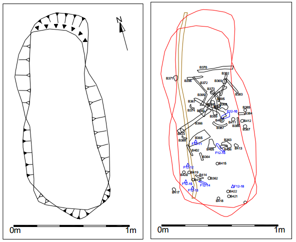 Kuml 5